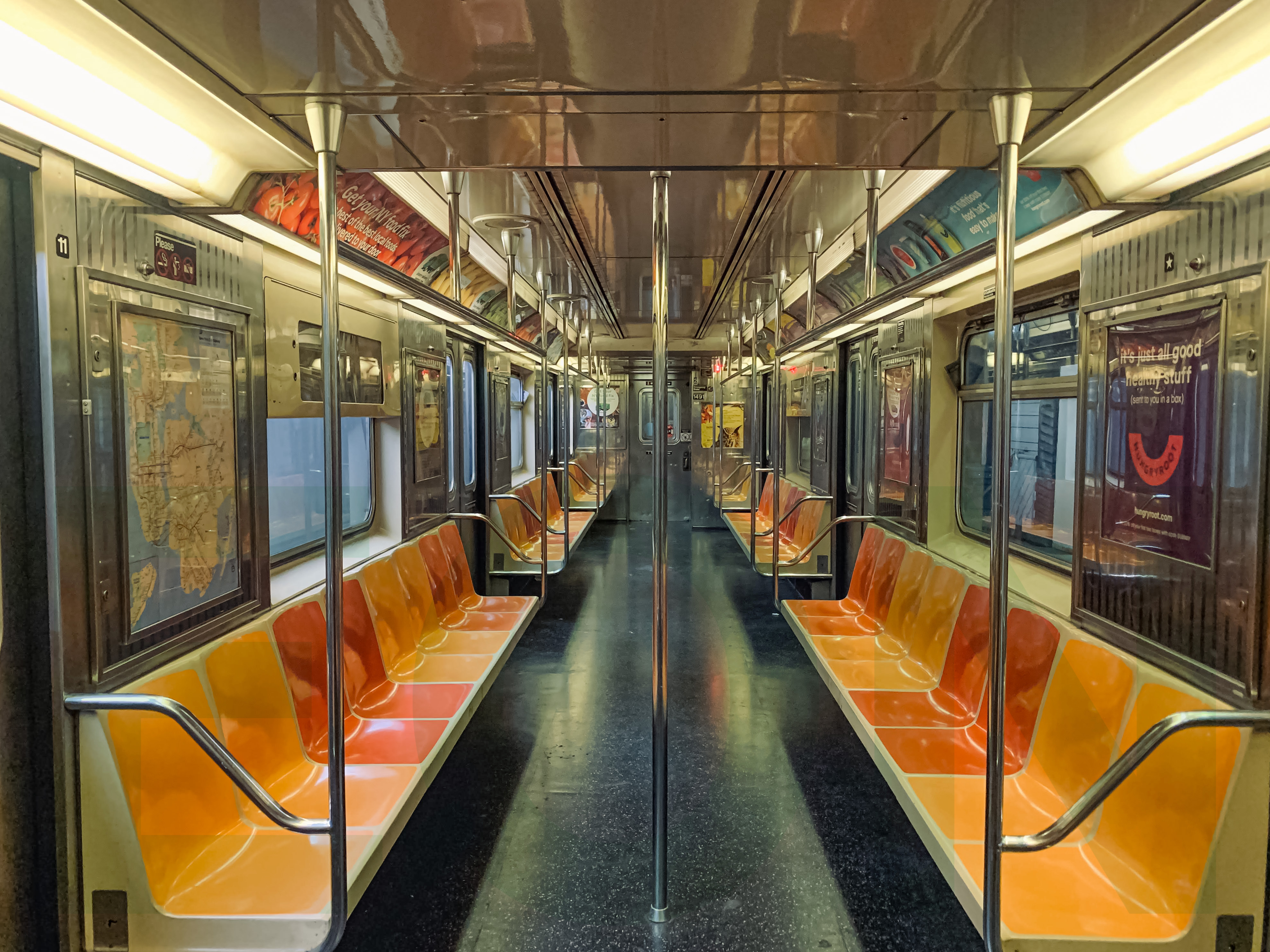 An R62 awaiting to start service on the 3 line, an empty car at Harlem-148th Street.